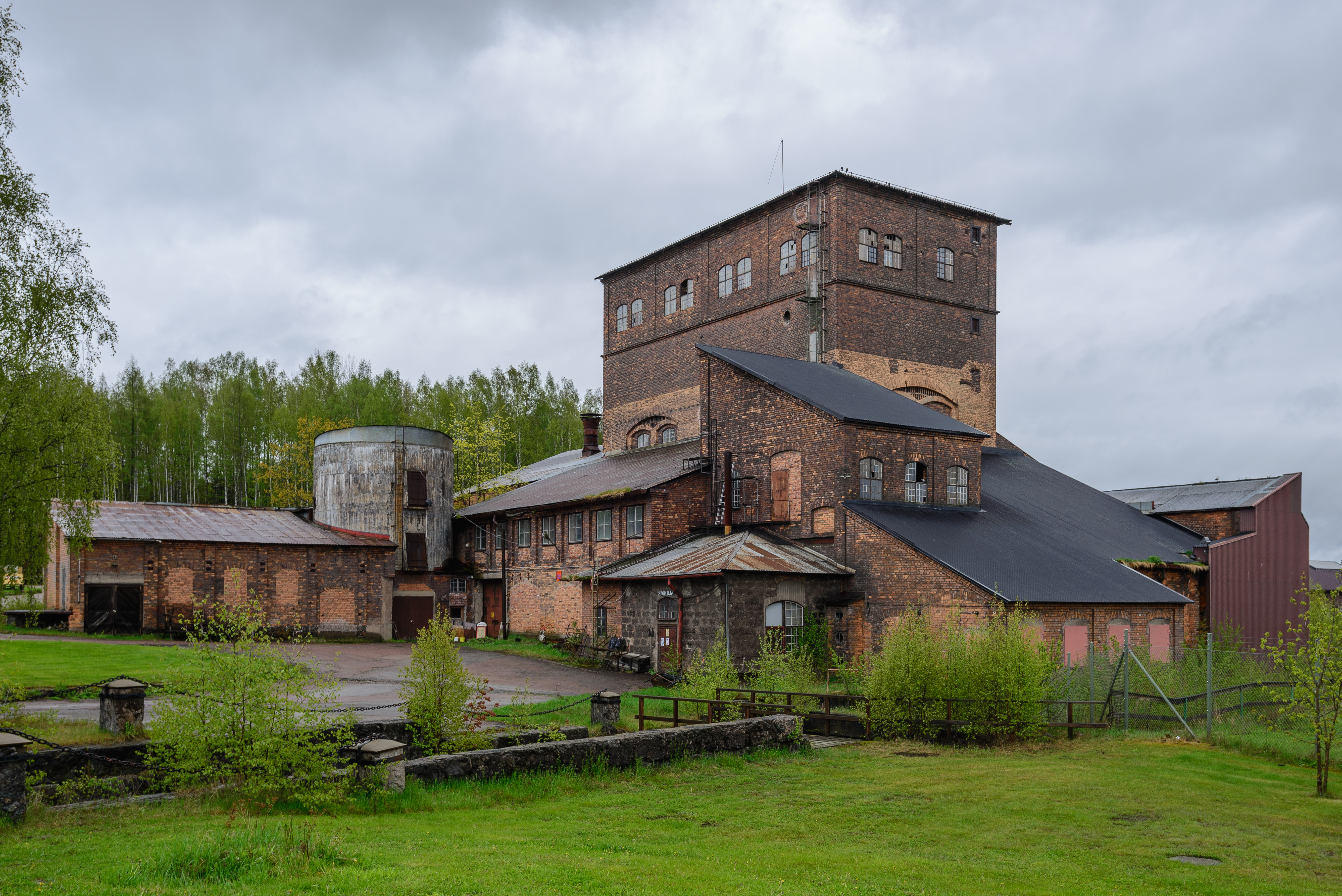 Blast furnace in Långshyttan, Hedemora Municipality. Closed in 1948.